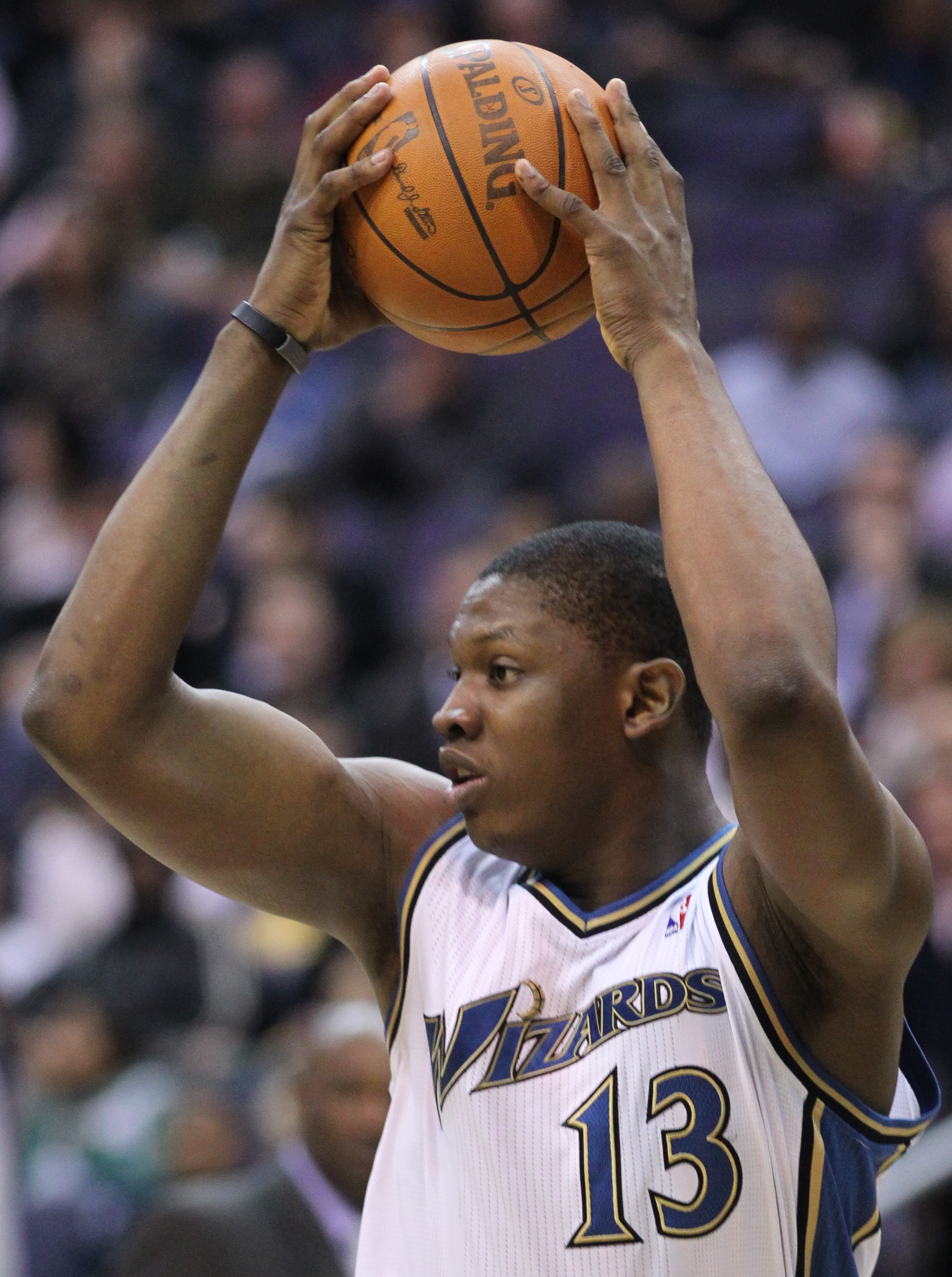 Wizards v/s Warriors 03/02/11